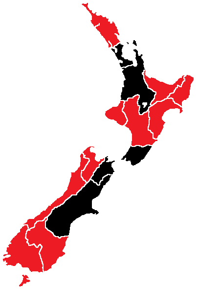 A map of confirmed or suspected cases of Swine Influenze in New Zealand provinces.